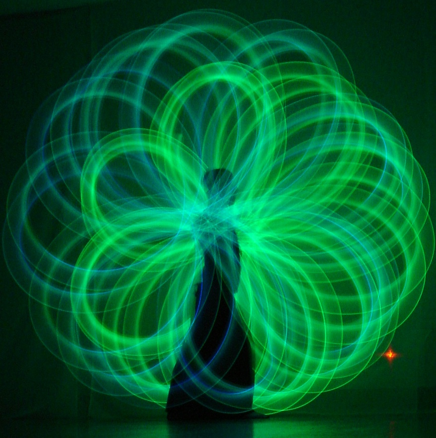 Poi spinning. Poi artist: Nick Woolsey